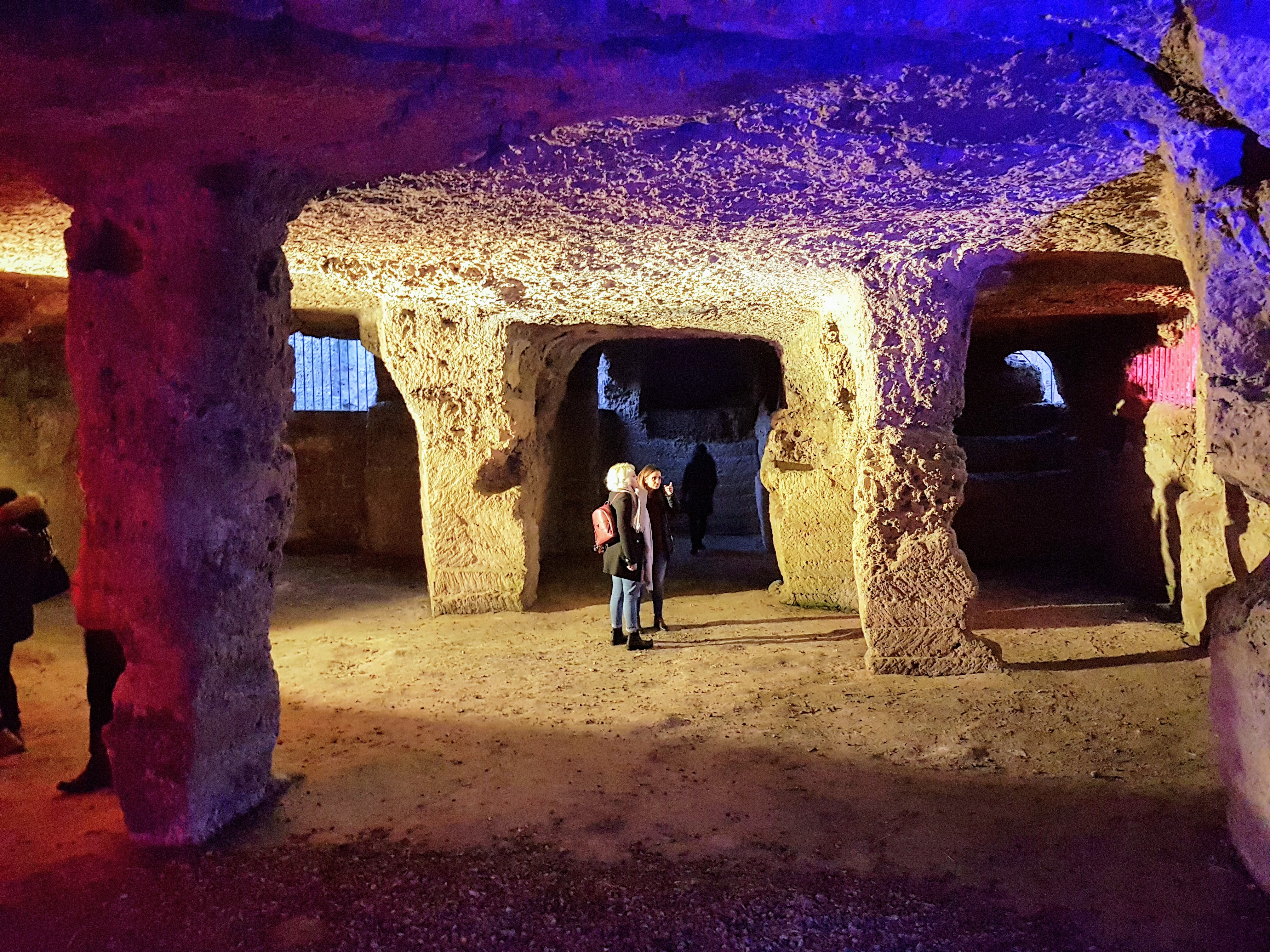 Veduta interna